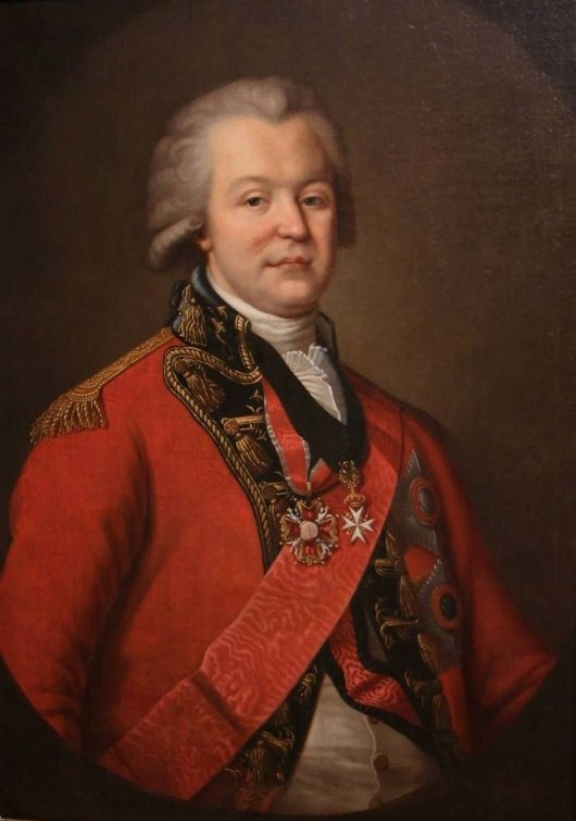 Engelgard, Vasily Vasilyevich